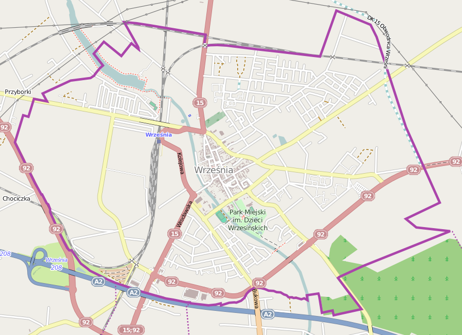 Map of Września, Poland This map of Września was created from OpenStreetMap project data, collected by the community. This map may be incomplete, and may contain errors. Don't rely solely on it for navigation. Border coordinates52.343617.5270←↕→17.609552.3069